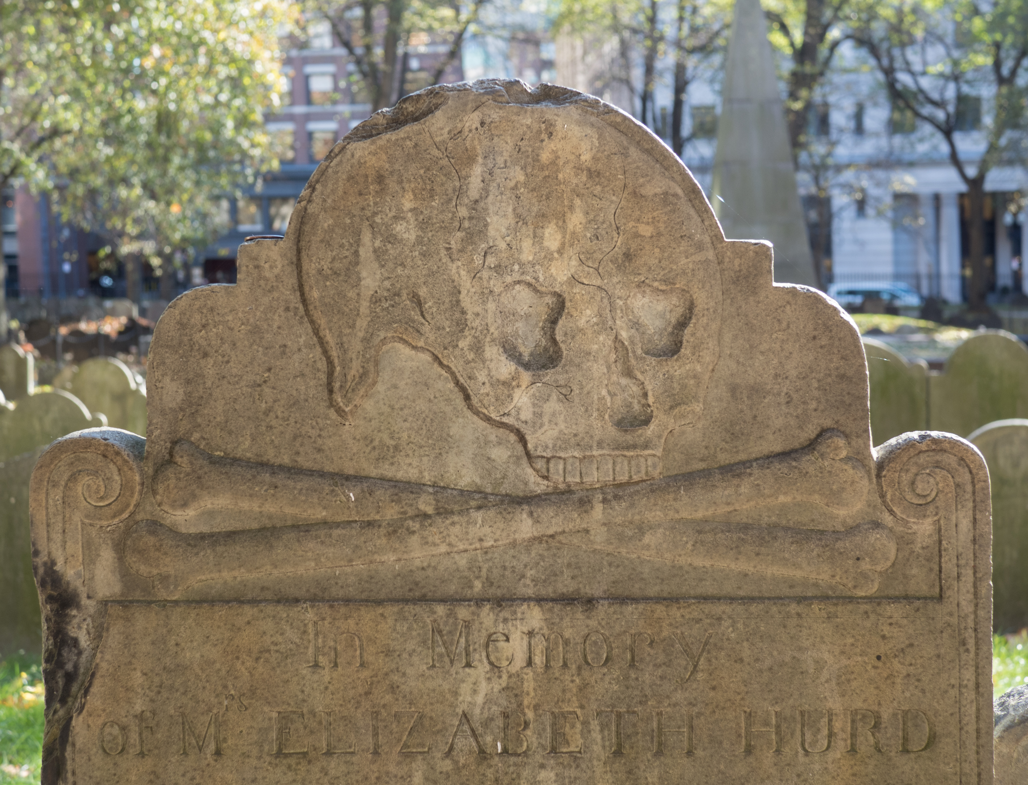 Detail of the Elizabeth Hurd headstone at the Granary Burying Ground in Boston